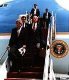 President Clinton descending from Air Force One, date uncertain. From .